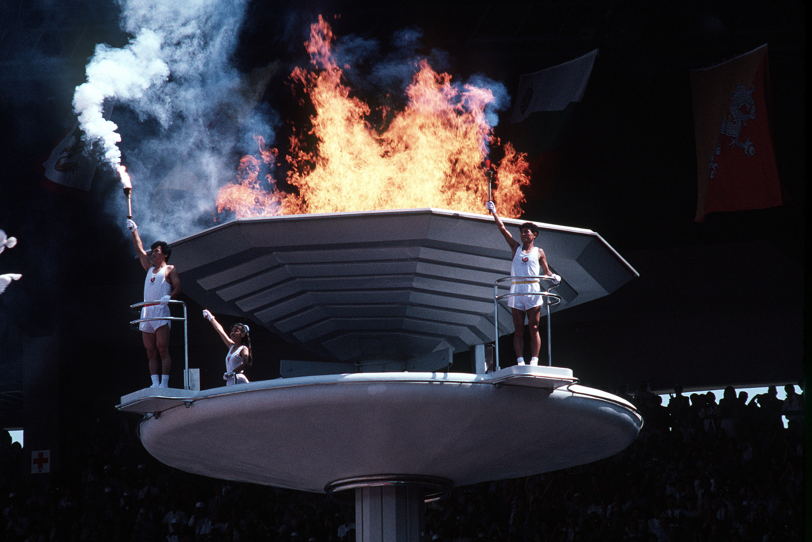 Athletes stand by the ceremonial torch of the XXIVth Olympiad.